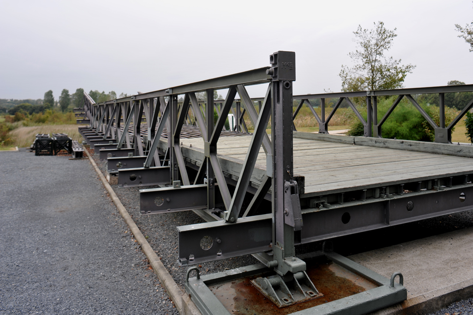 A Bailey bridge element in the „Memorial Pegasus“ museum in Ranville; Calvados, France.